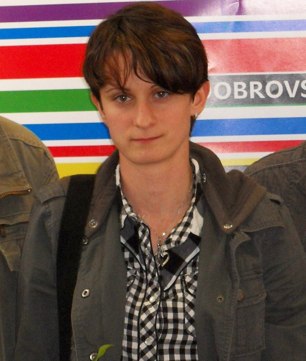 Czech speed skater Martina Sáblíková, Brno, Czech Republic